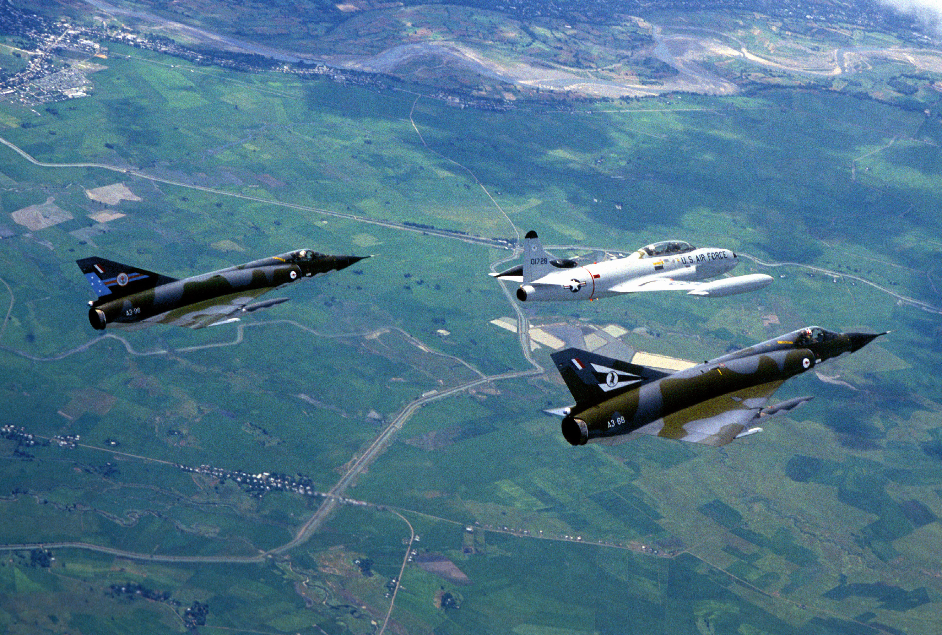 An air-to-air right side view of a T-33 Shooting Star aircraft and two Royal Australian Air Force CA-29 Mirage aircraft during the Cope Thunder exercise. Location: CLARK AIR BASE, LUZON PHILIPPINES (PHL)